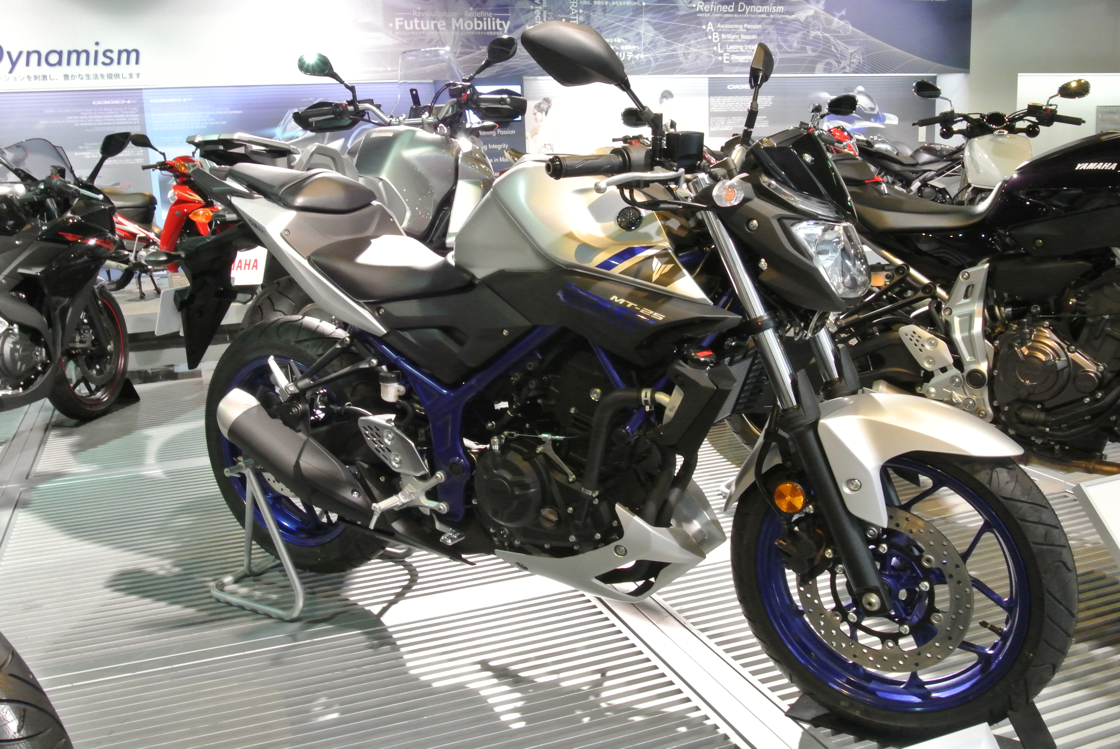 2016 Yamaha MT-25 in the Yamaha Communication Plaza.